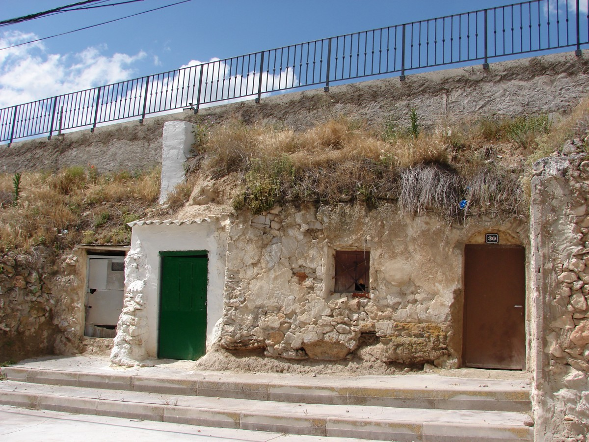 Barrio de las Cuevas (Illana - Guadalajara)